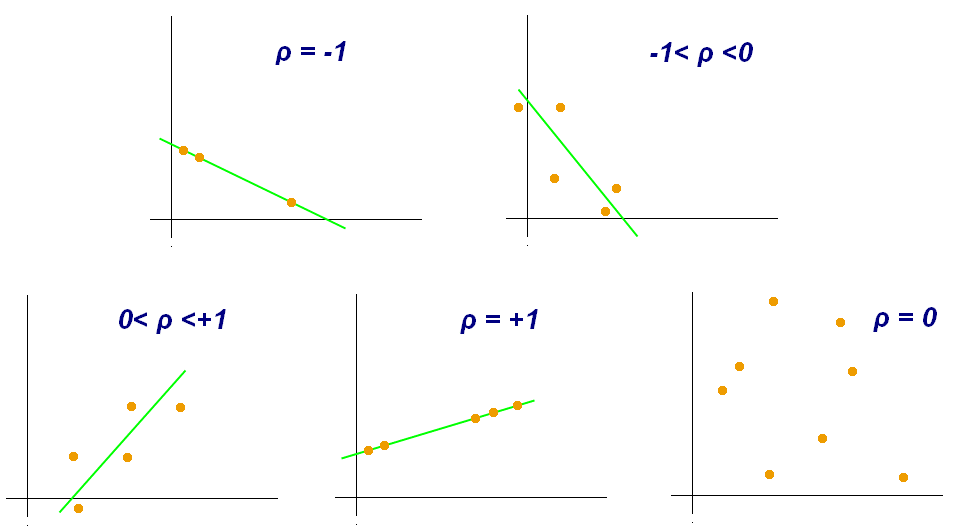 Examples of scatter diagrams with different values of correlation coefficient (ρ)